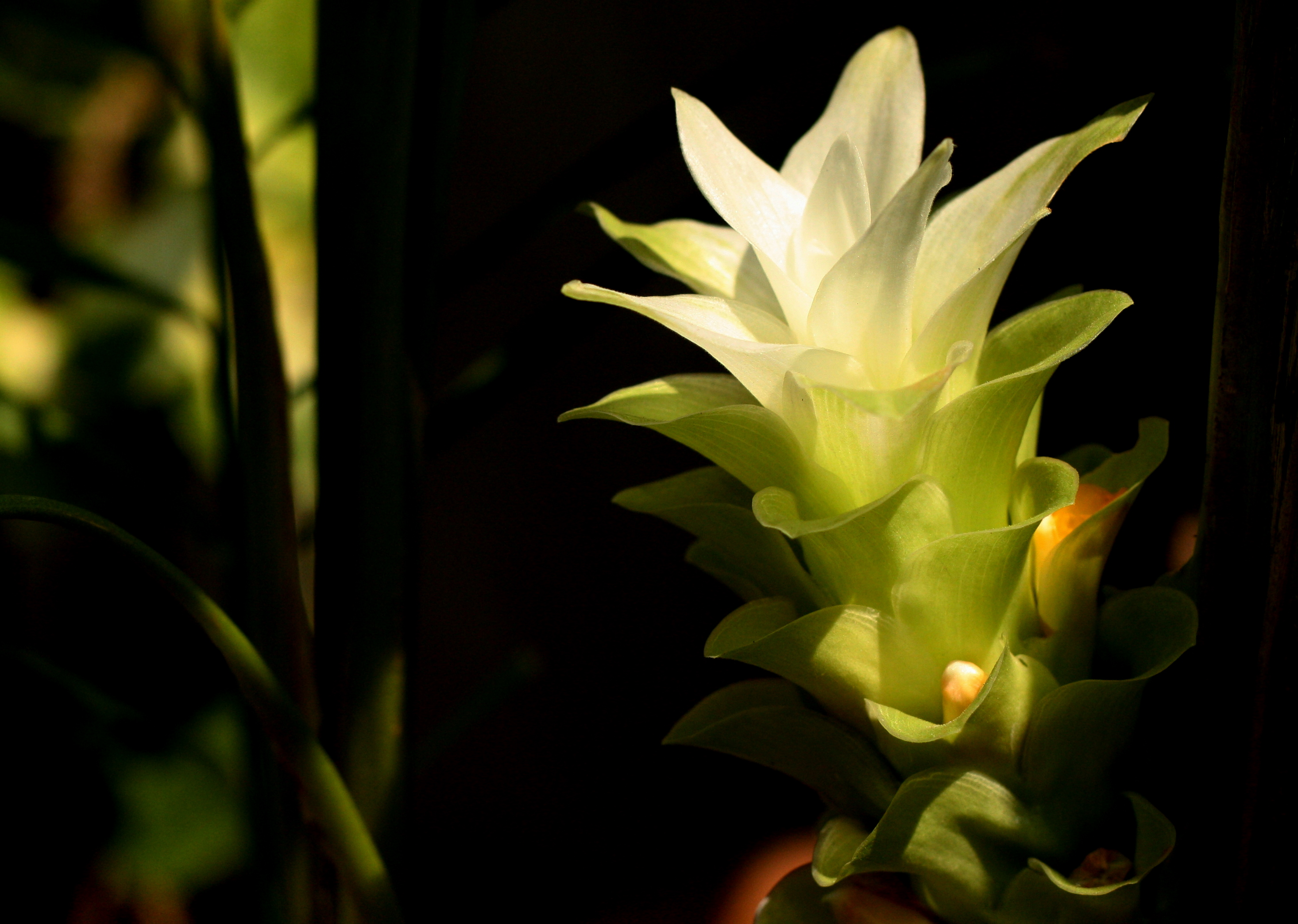 A variety of Turmeric Flower found in Maharashtra, India. Turmeric or "Indian Saffron" is one of the most commonly used spice in India - a key flavoring ingredient in any Indian cuisine.